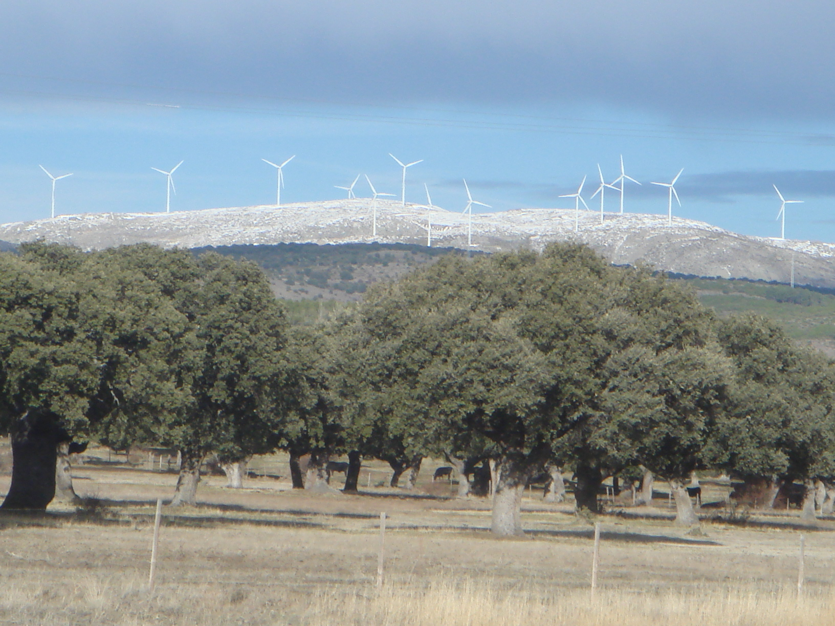 Wind farm at Cerro de Gorría, Sierra de Ávila, Spain.